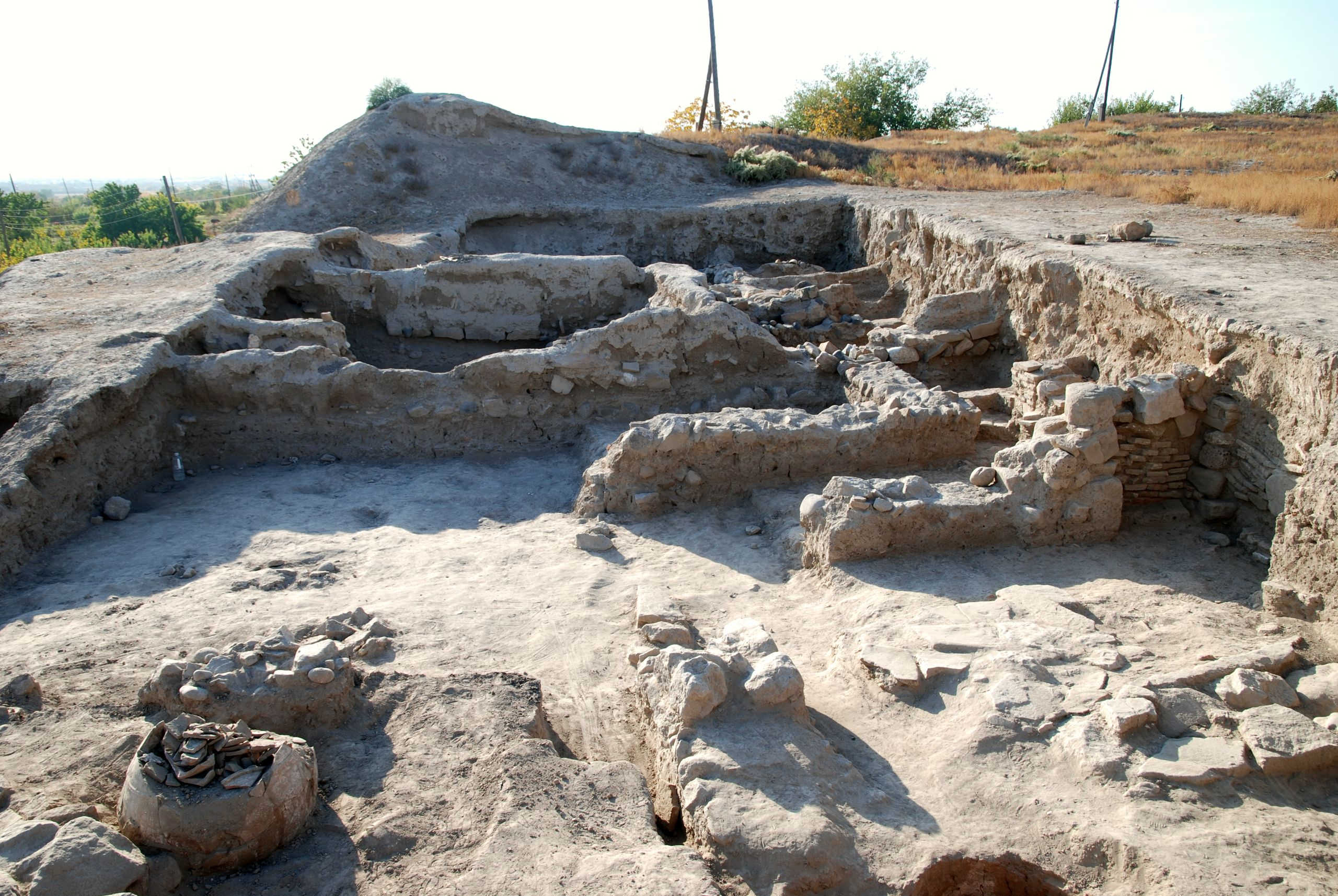 Dvin, citadel south side